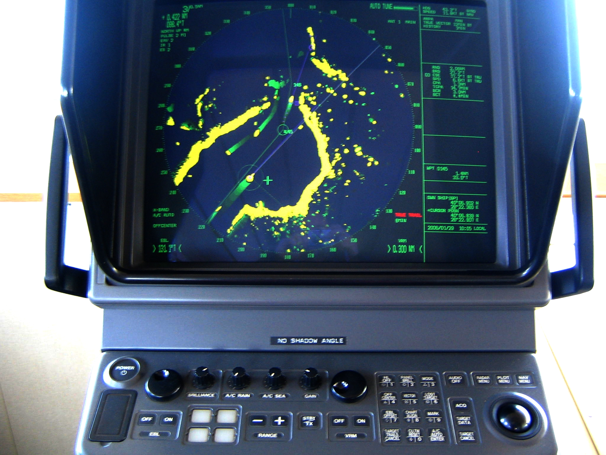 Display and control unit of a common maritime navigation and search radar.